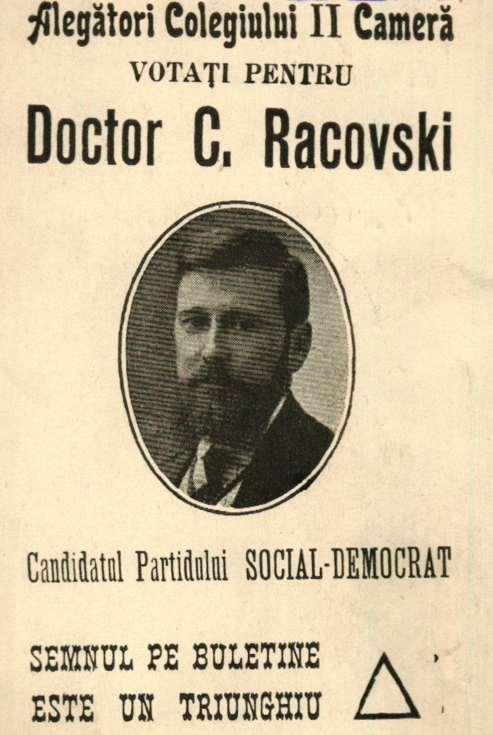 Christian Rakovsky - candidate in a parliamentary elections 1916, Romanian Social Democratic Party, Romania. Advertising, 1916